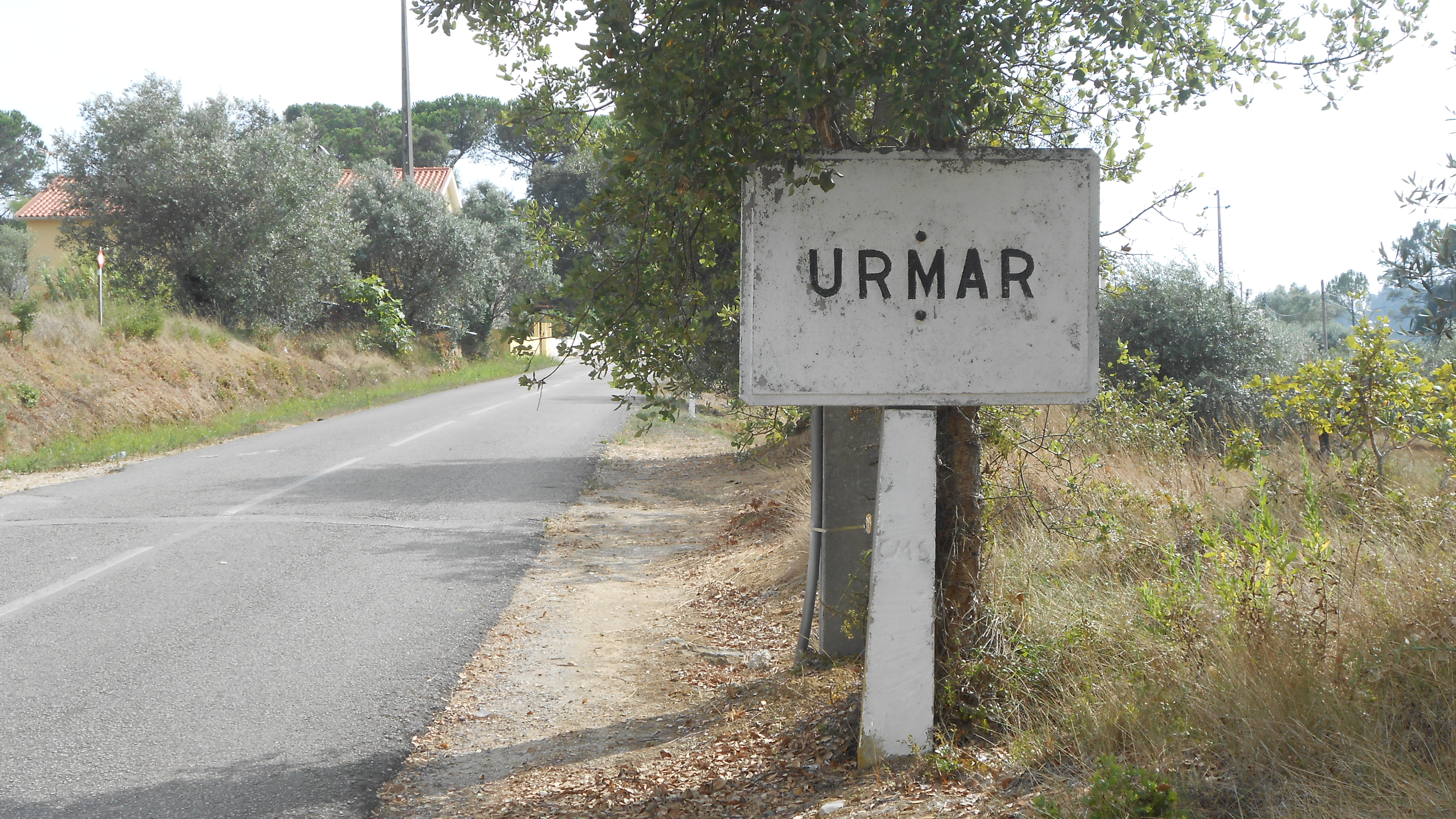 Entry sign of Urmar, parish (freguesia) Samuel, municipality (concelho) of Soure, Portugal (entering from direction Samuel/Coles)